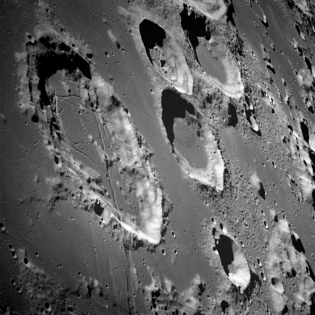 This is a 1968 NASA Photo of the Moon's Goclenius Crater taken during the Apollo 8 mission.